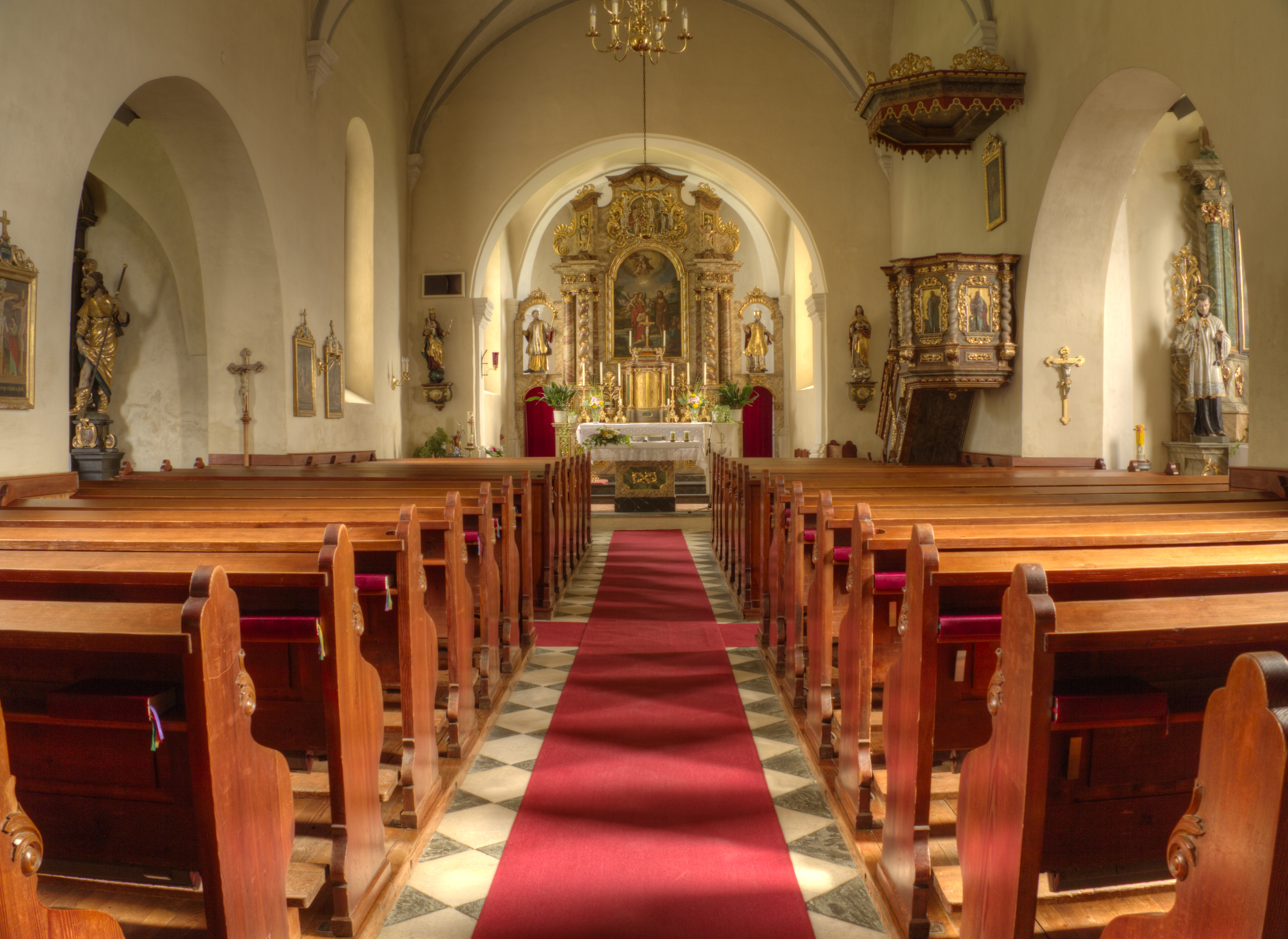 The church of Obermillstatt near Lake Millstatt, district Spittal an der Drau in Carinthia / Austria / EU. Main room of the church pews on the right and left. Behind the main altar and the pulpit.